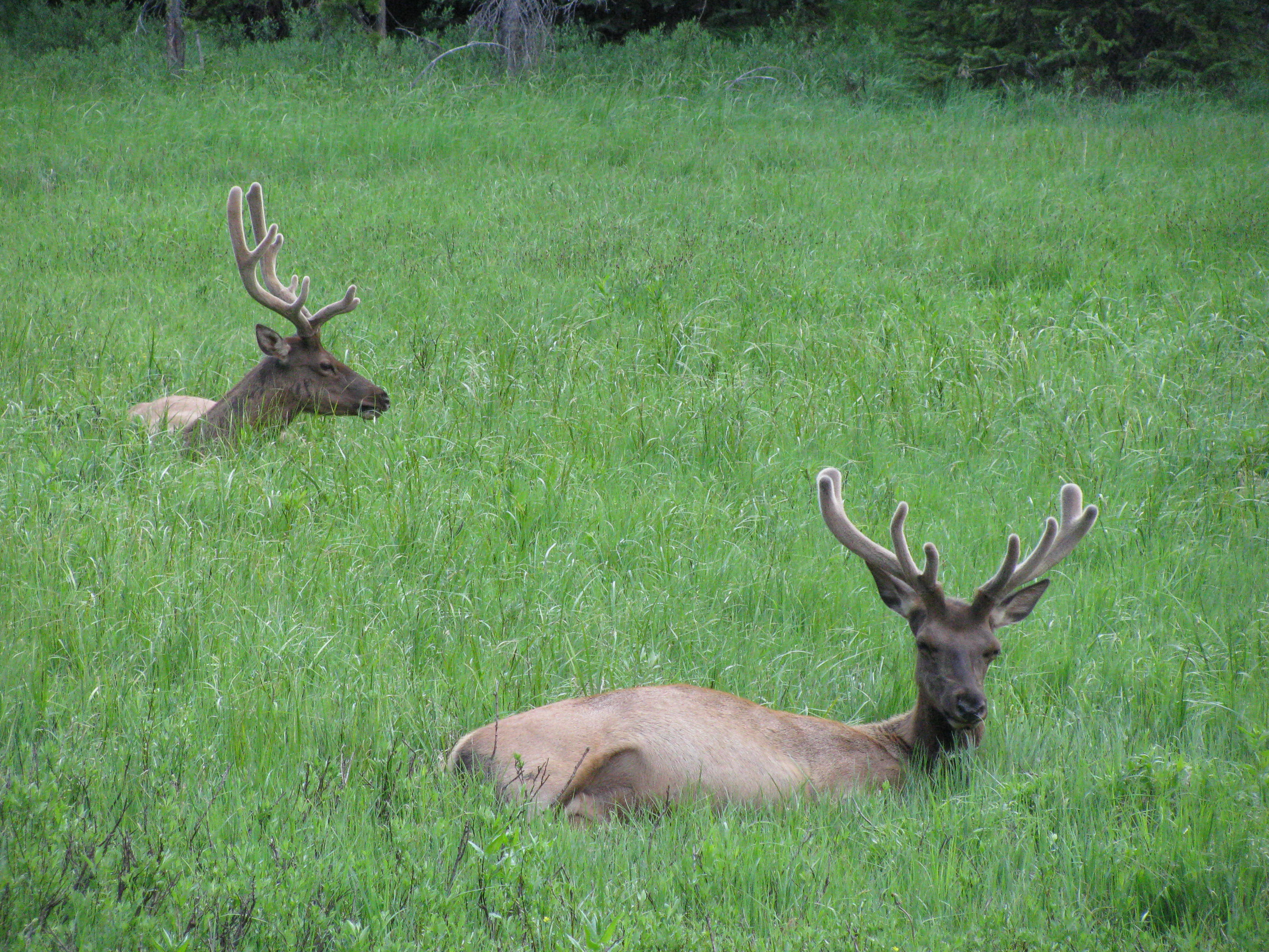 Elk in Hayden valley of yellowstone